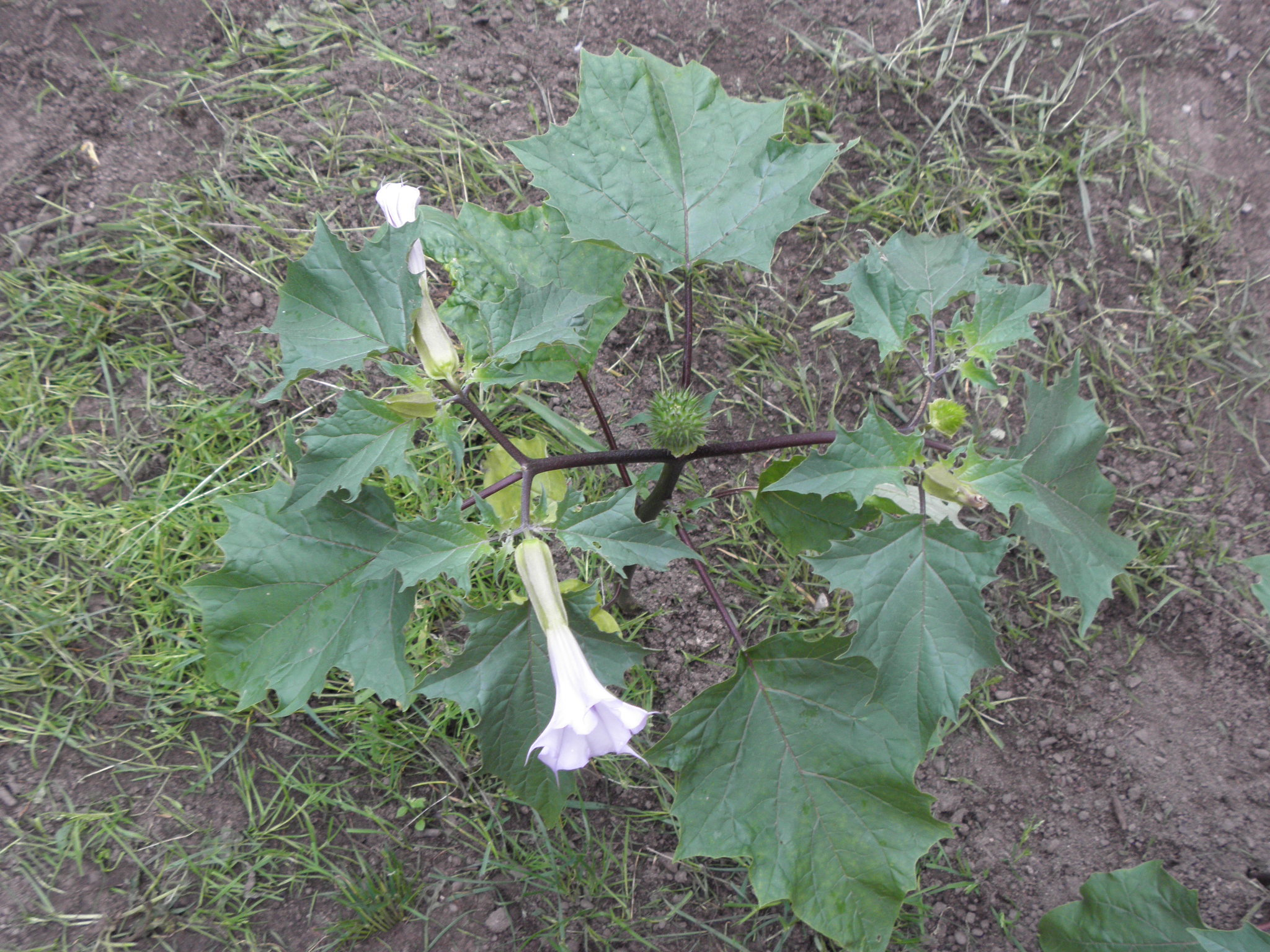 Datura stramonium var. tatula (L.) Torr whole